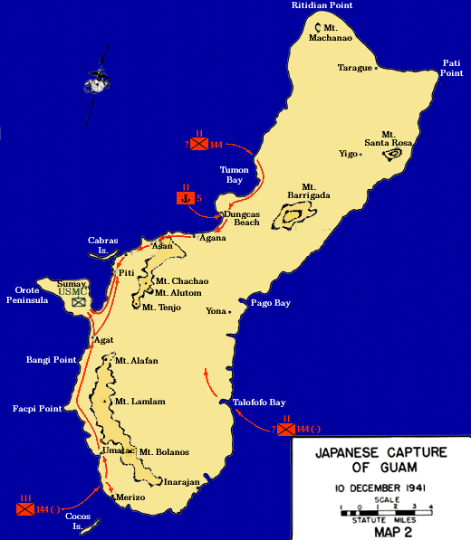 A map detailing Japanese movements during the Battle of Guam (1941). URL